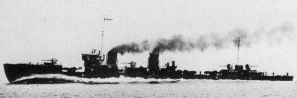 Imperial Japanese Navy destroyer Nokaze.